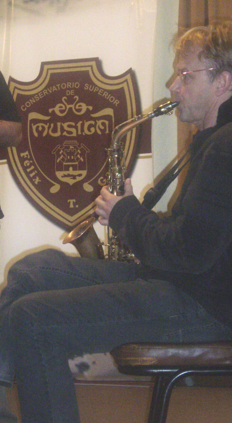 Arno Bornkamp during the Second Saxophone International Encounter 2010 that took place in the Felix T garzon Conservatory in Cordoba (Argentina)